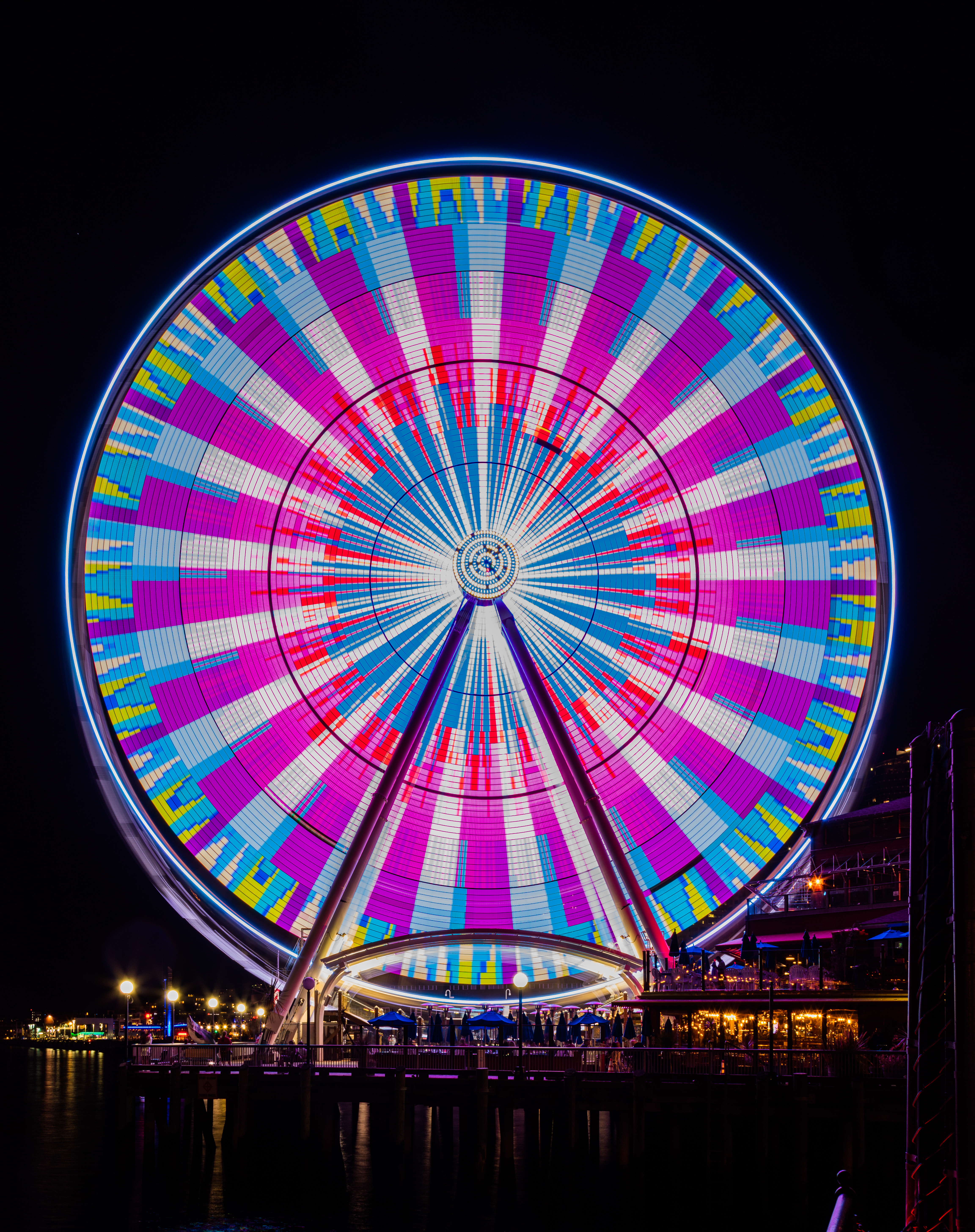 Long exposure of the Seattle Great Wheel, Elliott Bay, Seattle, Washington, USA. The giant Ferris wheel is 175 feet (53.3 m) high and was the tallest Ferris wheel on the West Coast of the United States when it was inaugurated in June 2012.